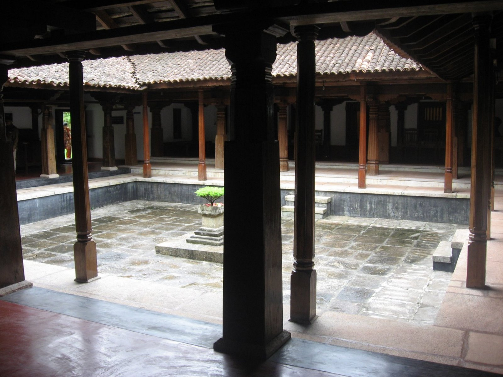 Traditional Karnataka courtyard house with Tulasi Katte